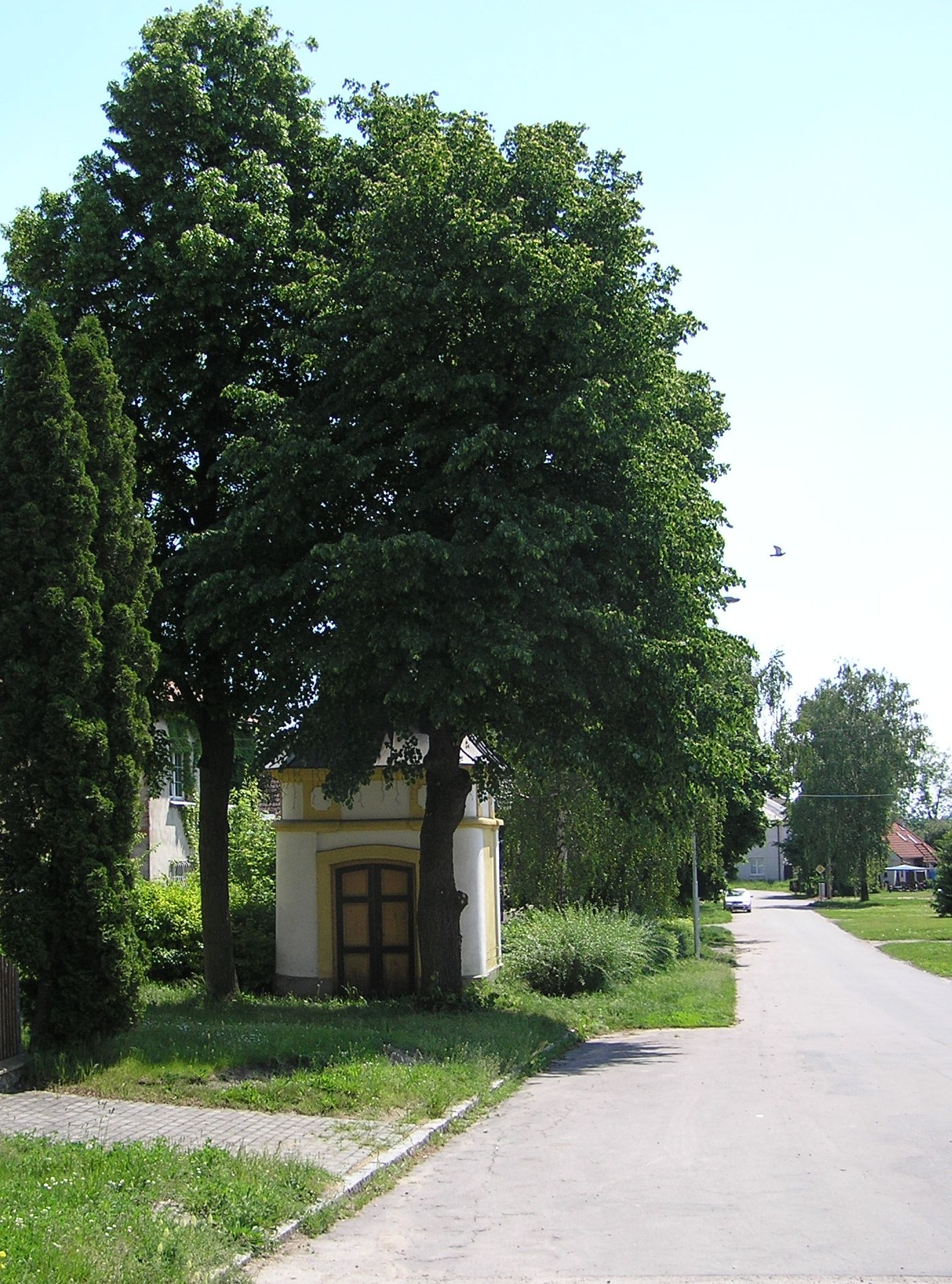 Kamenné Zboží, the chapel of St. Peter and Paul